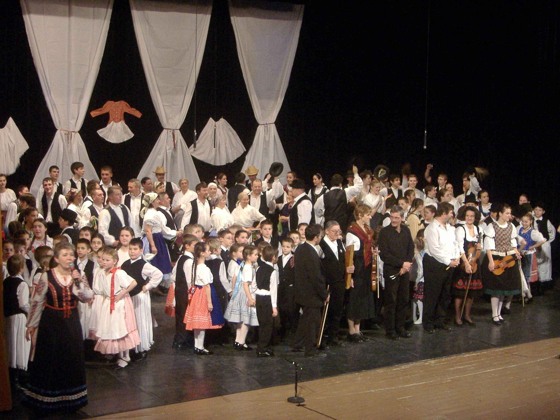 All the 170 folk dancers of the Maros Dance Ensemble are on the stage in Makó, Hungary.